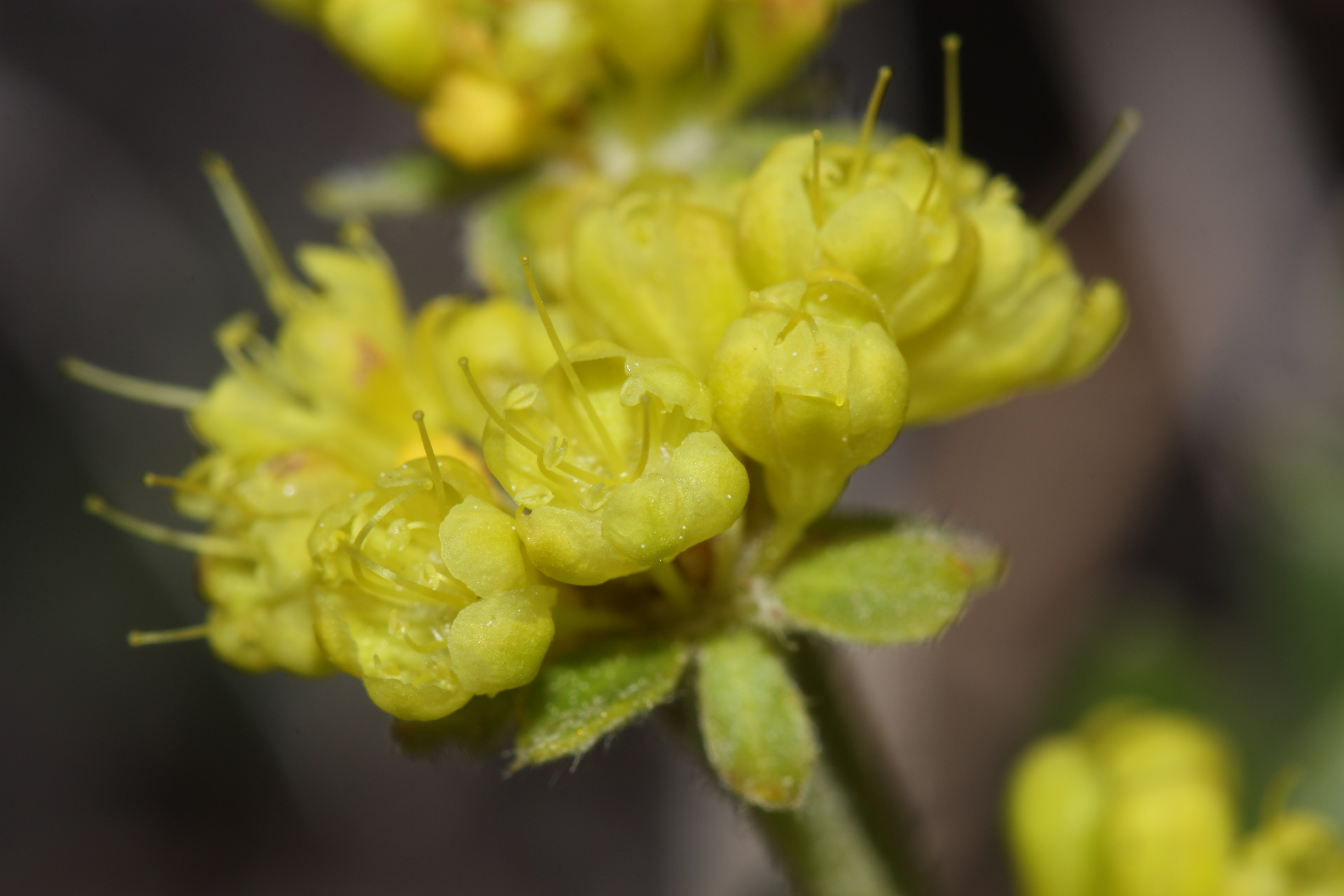 Sulfur Buckwheat Identification by: Hitchcock and Cronquist, p. 80 Viewpoint location: Tronsen Ridge Trail #1204, Tronsen Ridge Viewpoint elevation: 1027 meter (3371 ft) Location source: Garmin GPSmap 60CSx Location Datum: WGS84